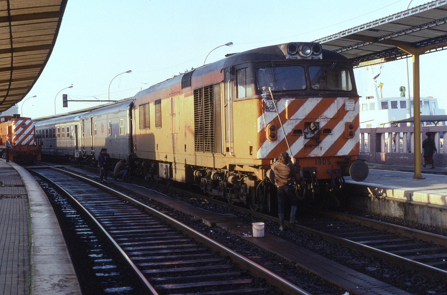 With the cab windows being washed down before departure, English Electric built class 1800, no. 1805 was booked to work the 08:25 Barreiro to Vila Real de Santo António Guadiana on 27 November 1990.